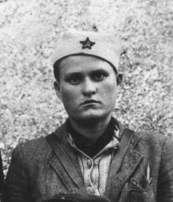 Vukosava Vukica Mićunović (1921-)